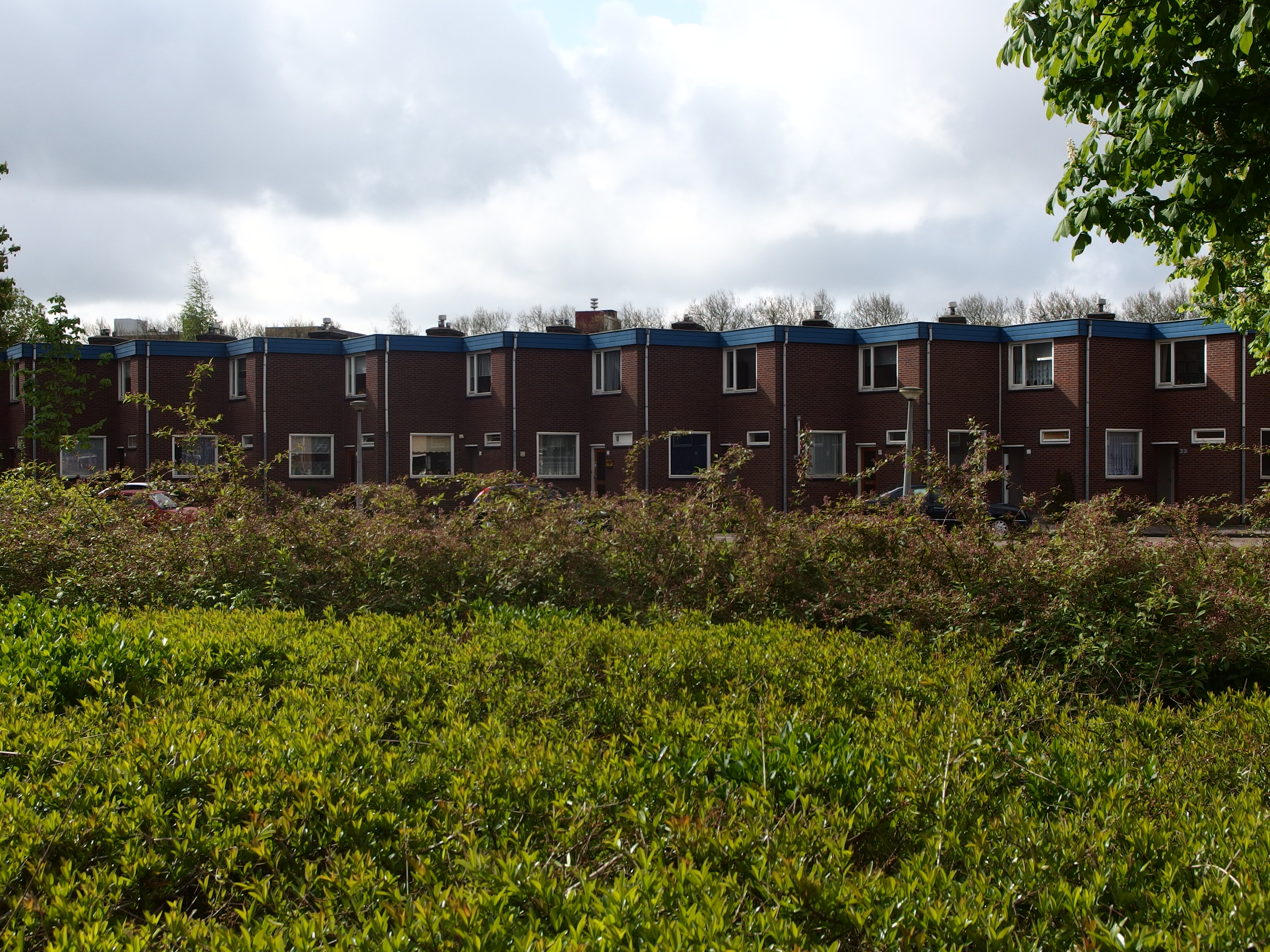 Bluebanddorp is a neighborhood in Slotervaart; designed by dutch modernist architect Frans van Gool and built in 1959. The houses are also known as "Zaagtandwoningen", meaning "sawtoothhouses", because of the characteristic salient form of the frontside of the houses. The name "Bluebanddorp", originally a nickname, derives from the blue eaves of the houses. Anton Petershof.